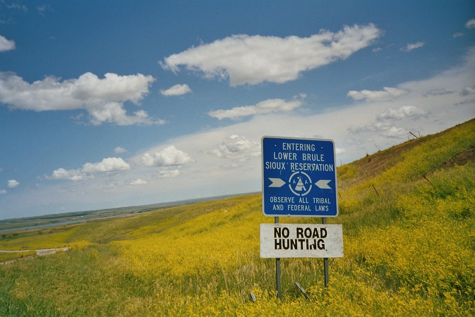 Lower Brule Reservation sign, South Dakota